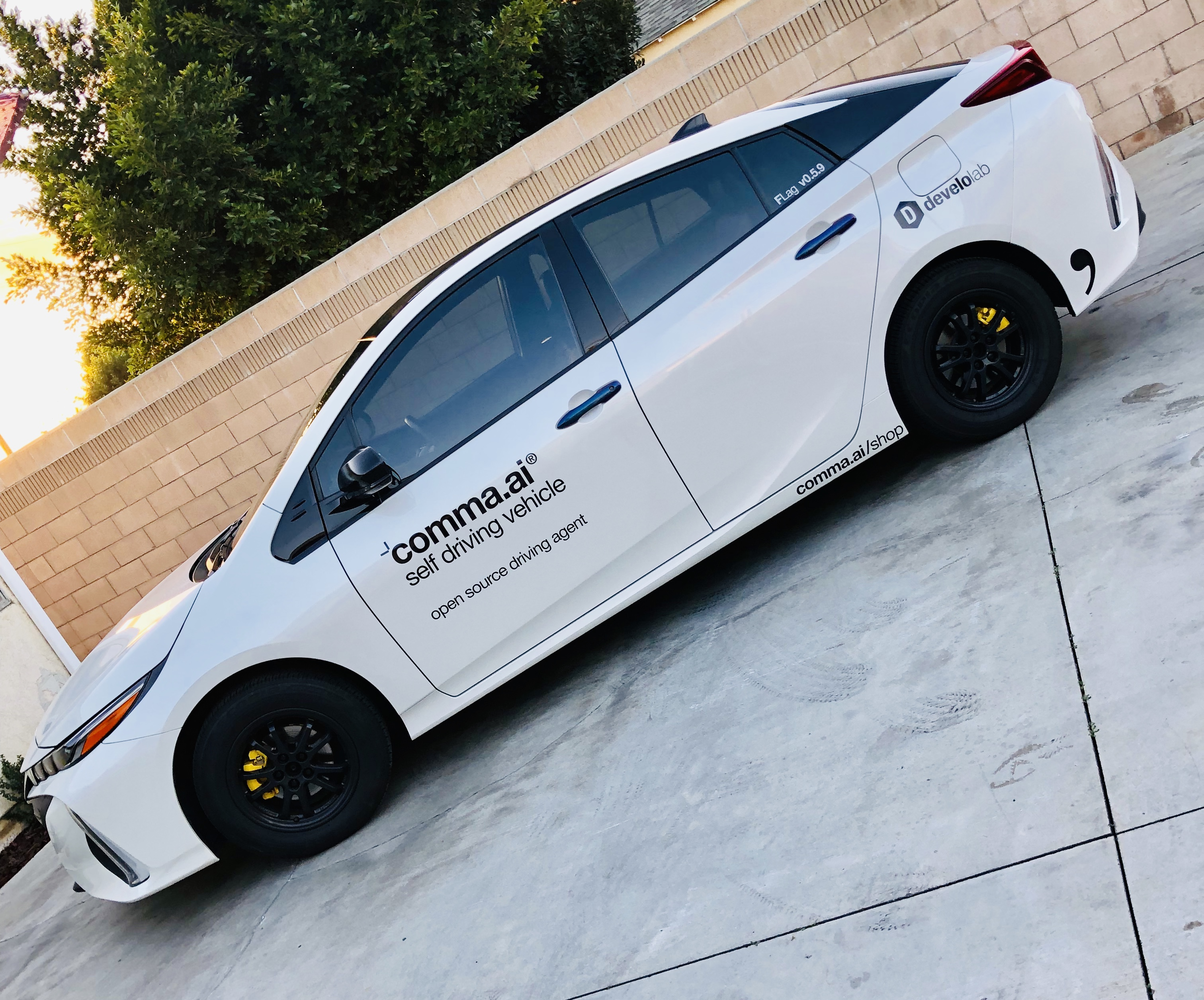 picture of a user's comma.ai car